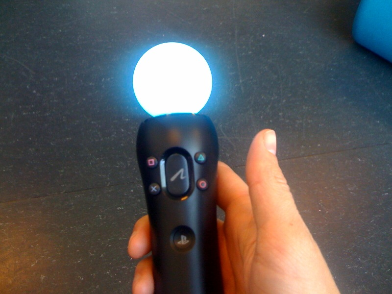 PlayStation Move motion controller with lit sphere, in hand. Image taken near Nordisk Film headquarters in Valby.